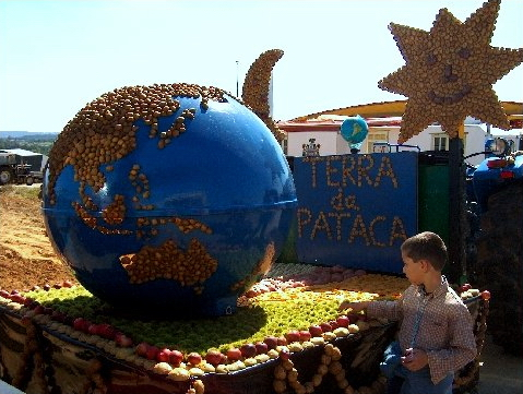 Potato festival at Costanrico (Galicia, Spain)